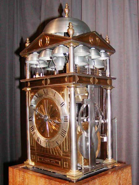 Lantern clock, signed "N. Vallin 1598". Photo of a replica in the Museum van Speelklok tot Pierement in Utrecht. The original clock is in the British Museum in London.